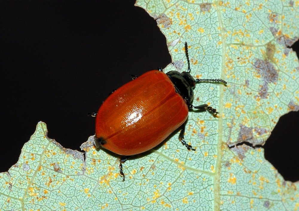 Melasoma populi, Messel near Darmstadt, Germany